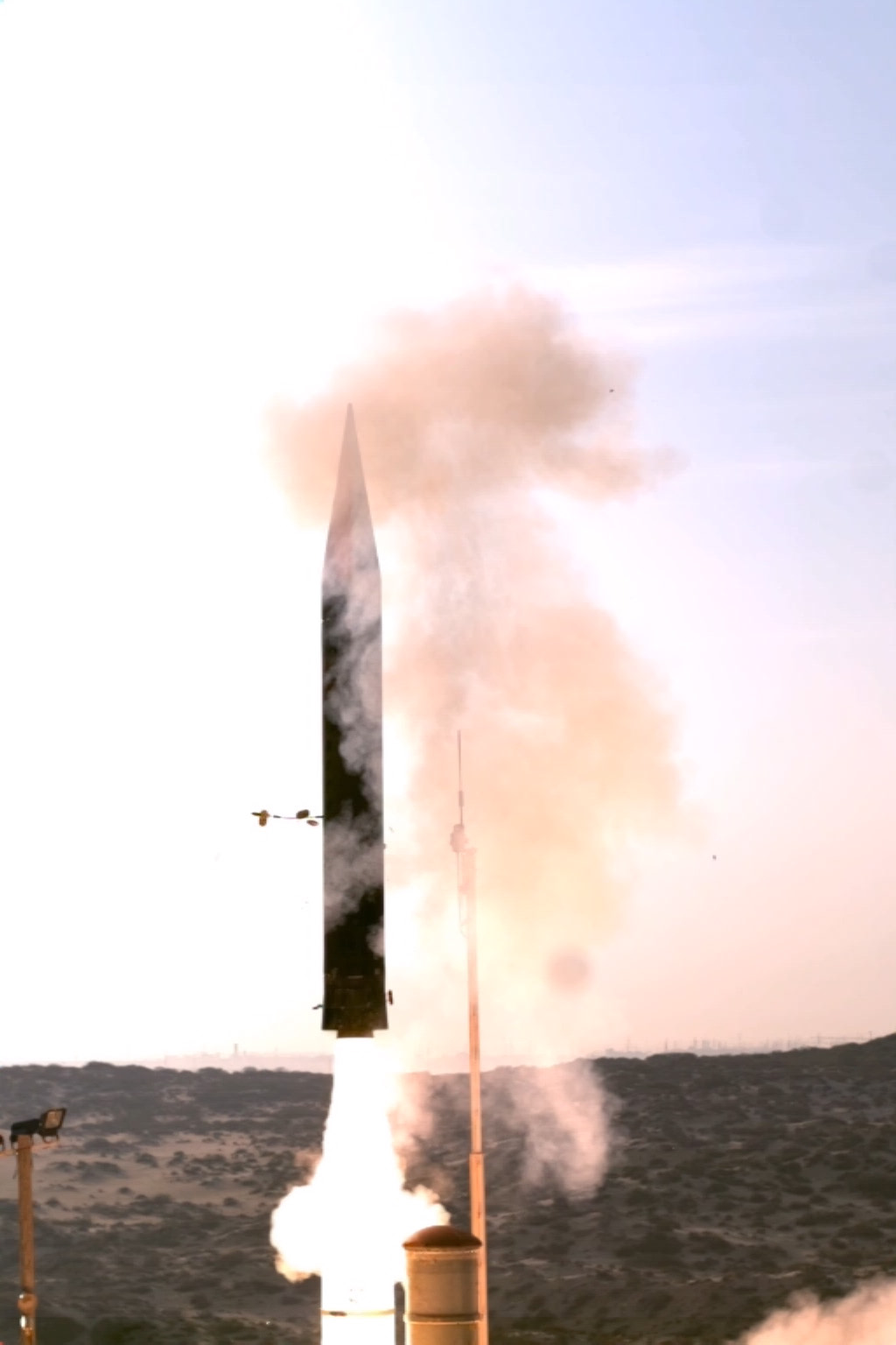 Jan. 3, 2014 - The Israel Missile Defense Organization (IMDO) and the U.S. Missile Defense Agency (MDA) completed the second successful flyout test of the Arrow-3 interceptor.